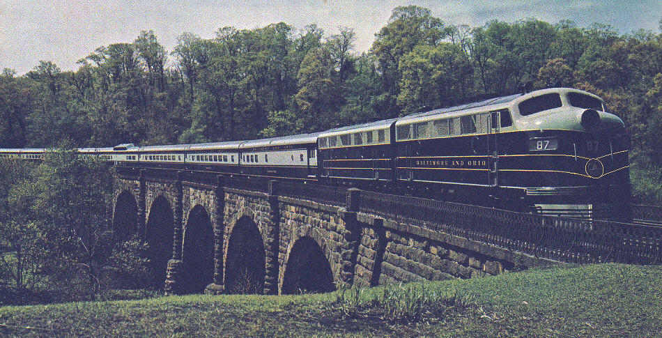 The Baltimore and Ohio Railroad's Columbian in 1949, later combined with the Capitol Limited